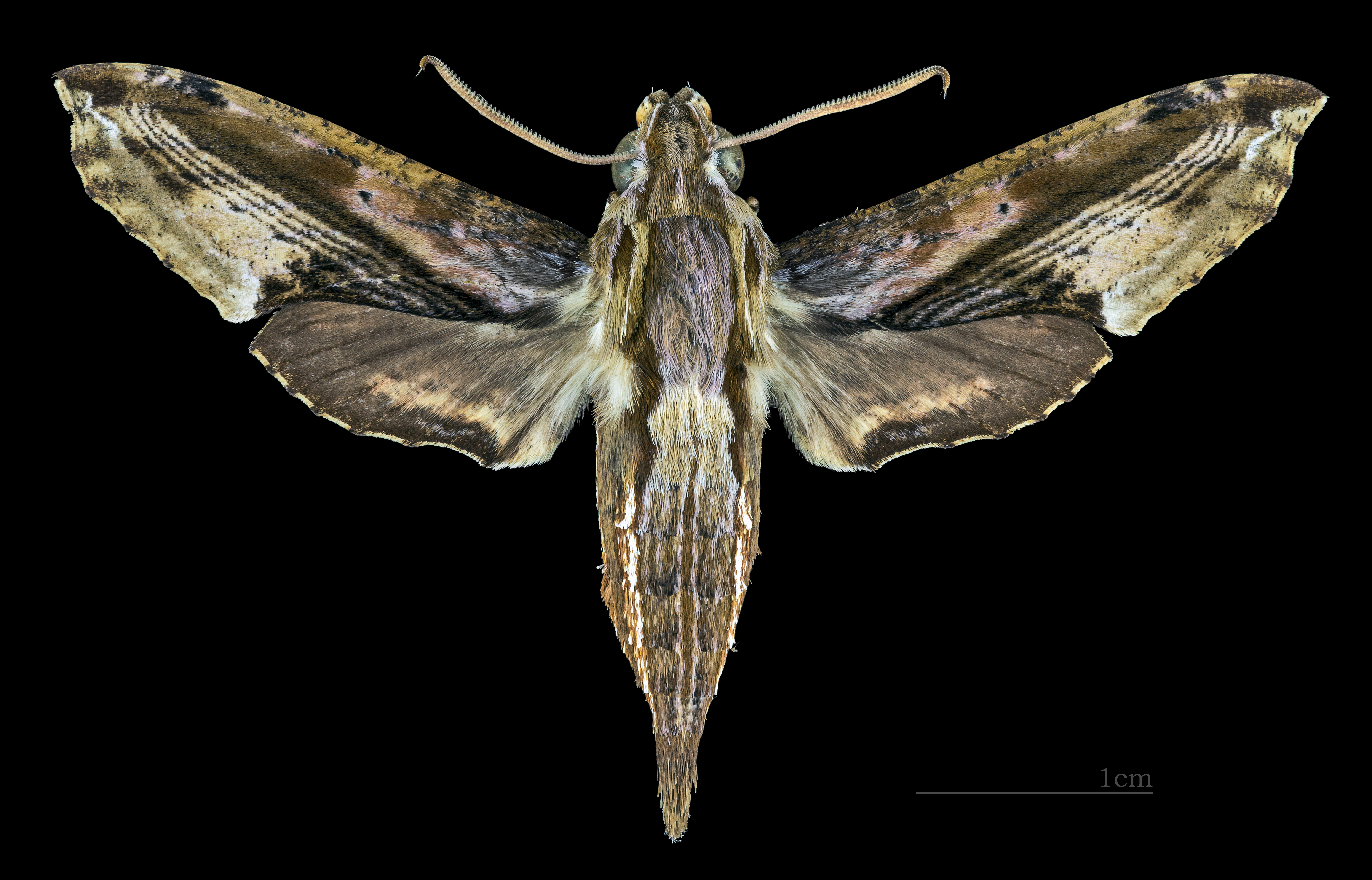 Eupanacra radians - Dorsal side Collection of the Mathematician Laurent Schwartz